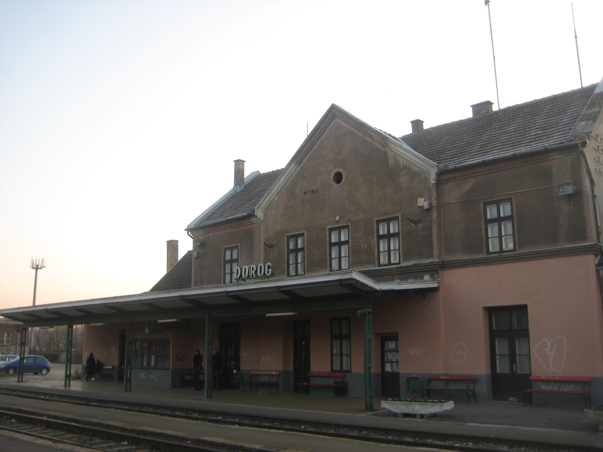 Railway station in Dorog.